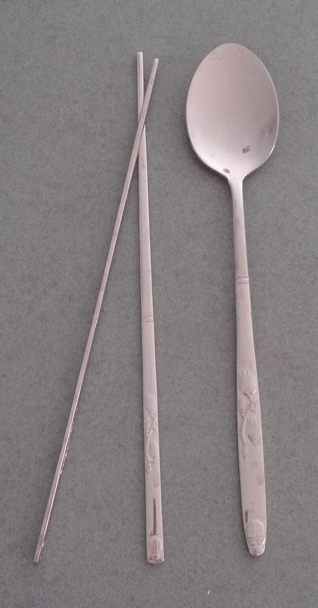 Sujeo, a set of Korean cutlery